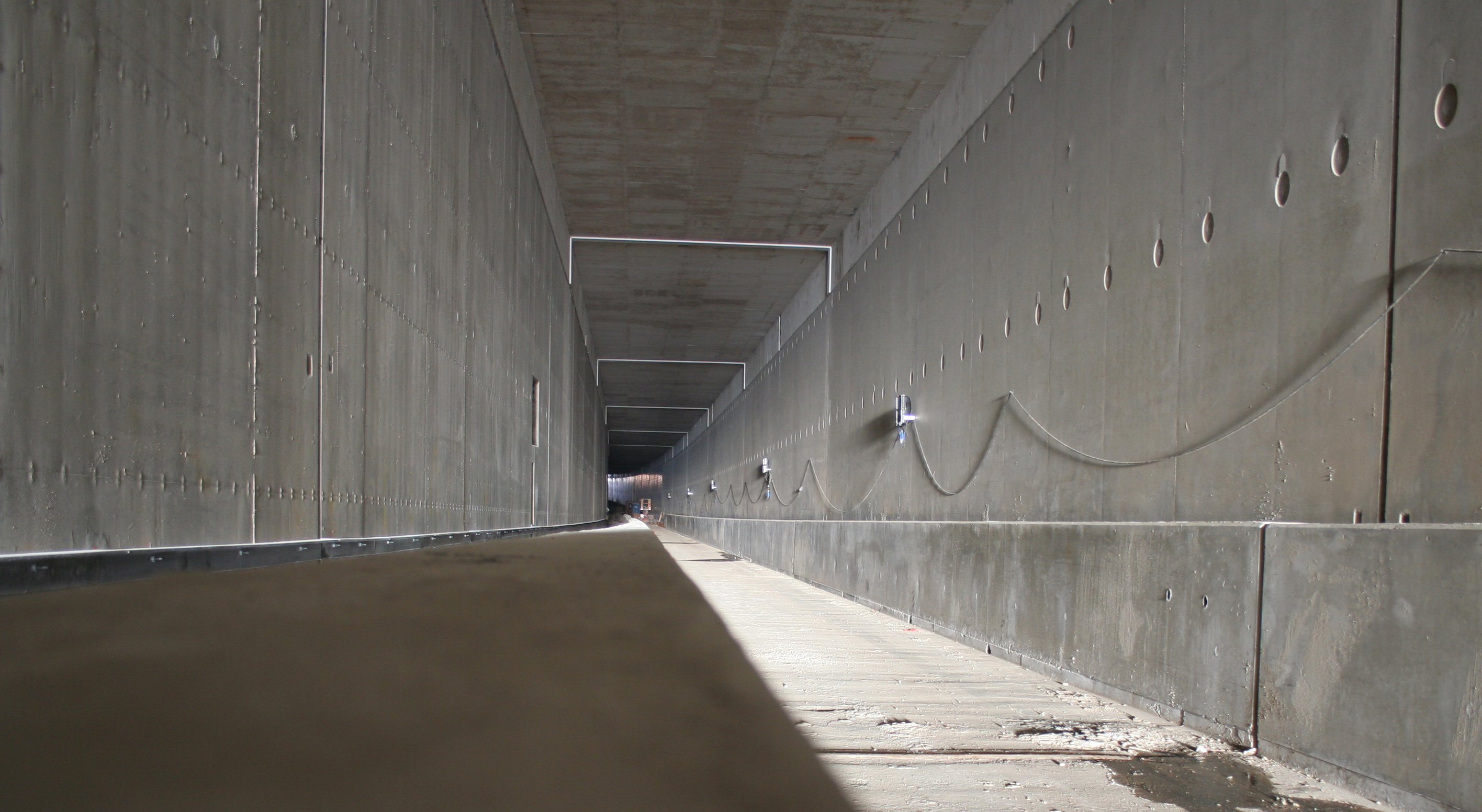 Tunnel Drontermeer in aanbouw